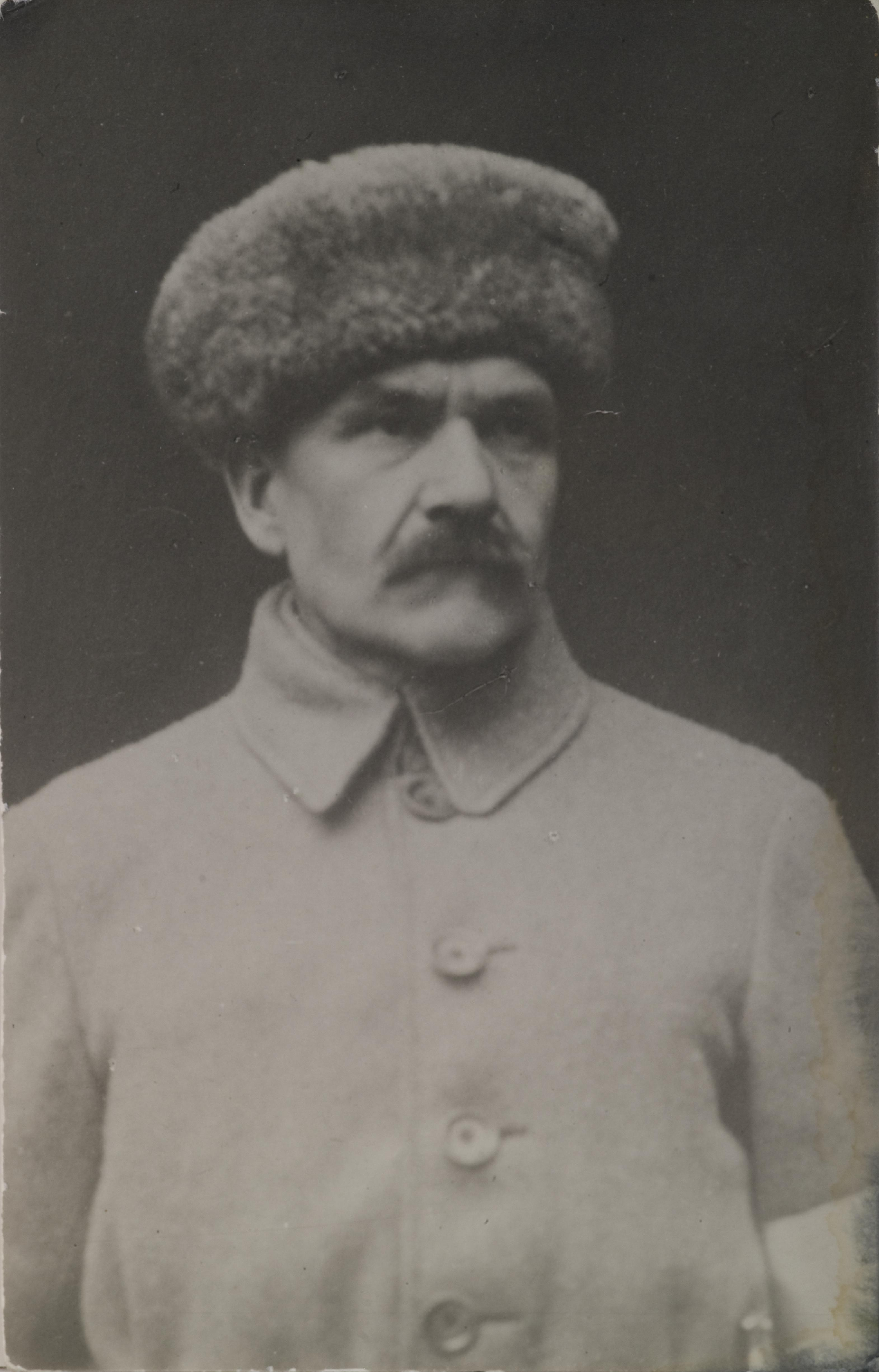 Vuonna 1918 Akseli Gallen-Kallela oli kaksi viikkoa sisällissodan rintamalla. Sieltä kenraali Mannerheim kutsui hänet suunnittelemaan lippuja, kunniamerkkejä, univormuja ja muita itsenäisen Suomen tunnuksia. Akseli Gallen-Kallela palveli Mannerheimin adjutanttina vuonna 1919. Hän maalasi useita muotokuvia Mannerheimista, mukaan lukien kuuluisan Mannerheim-museossa nykyisin sijaitsevan muotokuvan vuodelta 1928. Sen tilasi Liittopanki, jonka hallitusneuvoston puheenjohtajan Mannerheim toimi. In 1918 Akseli Gallen-Kallela fought on the frontline of the Finnish Civil War for two weeks. Afterwards he was invited by General Carl Gustaf Emil Mannerheim to design flags, official decorations, uniforms and more for the new, independent Finland. Akseli Gallen-Kallela later served as Mannerheim’s adjutant in 1919. He also painted several portraits of Mannerheim, including the famous portrait commissioned in 1928 by the Union Bank of Finland where Mannerheim served as president of the board (this painting is now in the Mannerheim Museum). Kuvauspaikka: ajoitus: kuvaaja: mitat: 80x110 tekniikka: valokuvavedos merkintöjä: Käsin kirjoitettu teksti: Akseli Gallen-Kallela vapaussodassa inventointinumero: Levy III./3 kokoelma: Akseli Gallen-Kallelan valokuvakokoelma tutki lisää / explore further: Tiedätkö lisää tästä kuvasta? Kerro meille! Do you have information on this photo? Let us know!